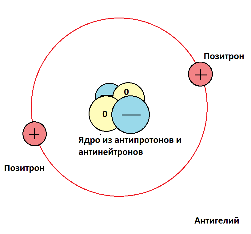 Structure of the antihelium atom